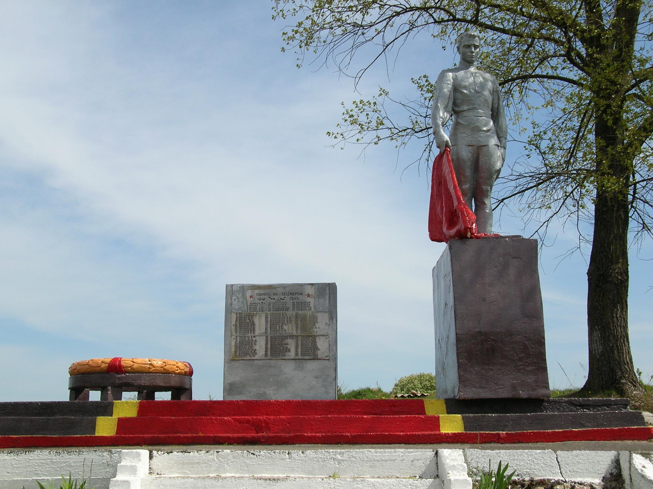 Monument of soviet soldiers in Brzostowica Mała.